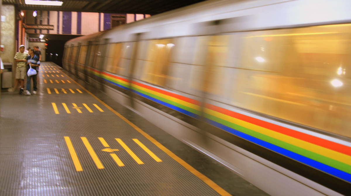 Caracas Metro.